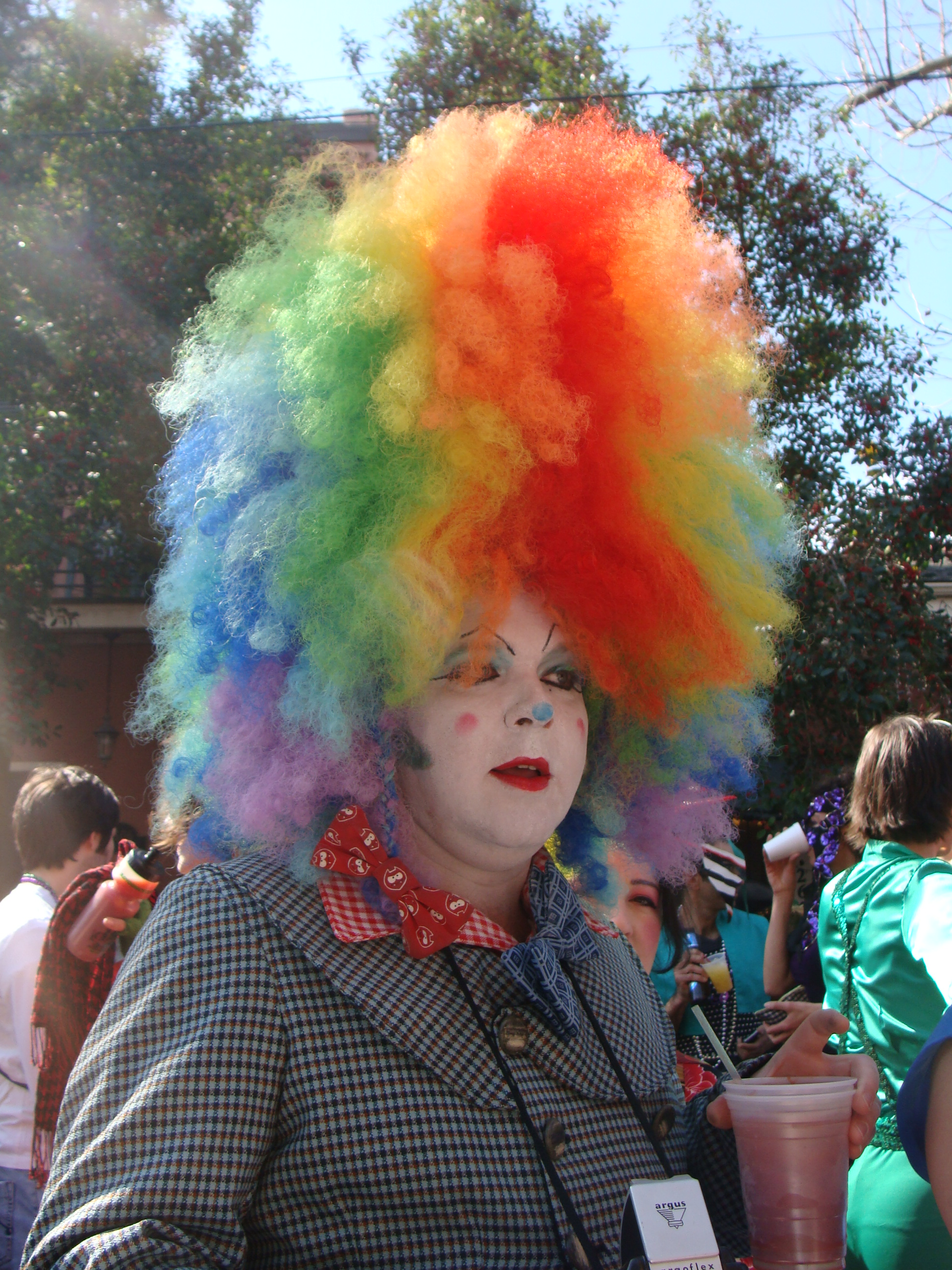 Mardi Gras in New Orleans